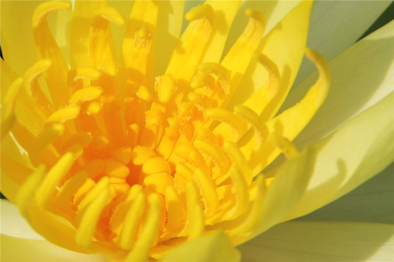 I am an aquatic plant with thickened rhizome. I have no aerial leaves but submerged leaves with fragile membrane. I grow in water or wetlands, favoring soil rich in organic matter. I usually reproduce through suckering and seeding propagation. I prefer sunny and droughty conditions, for which I flower in days and close at nights.